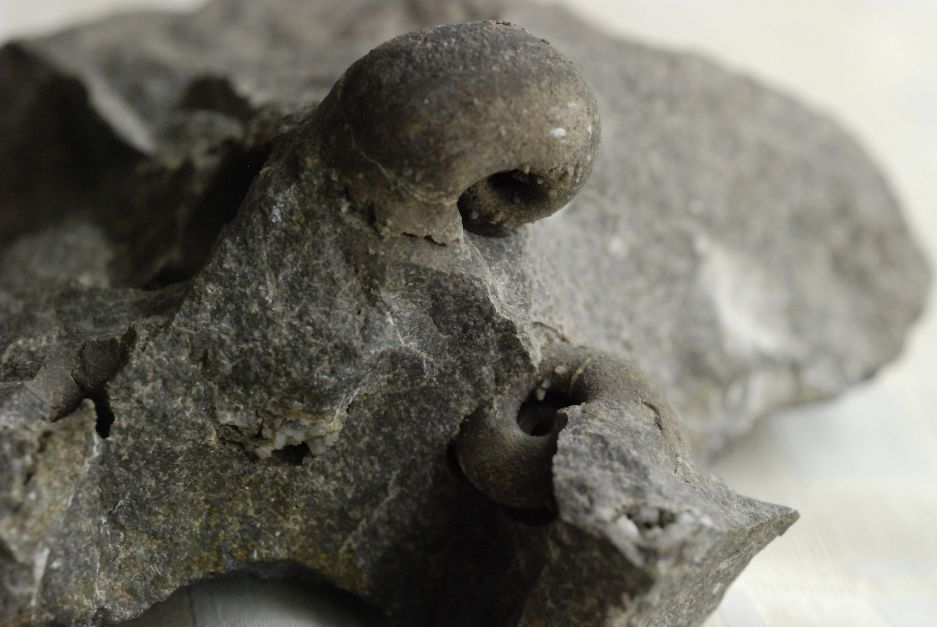 Bellerophonsnails in the Museum Gröden